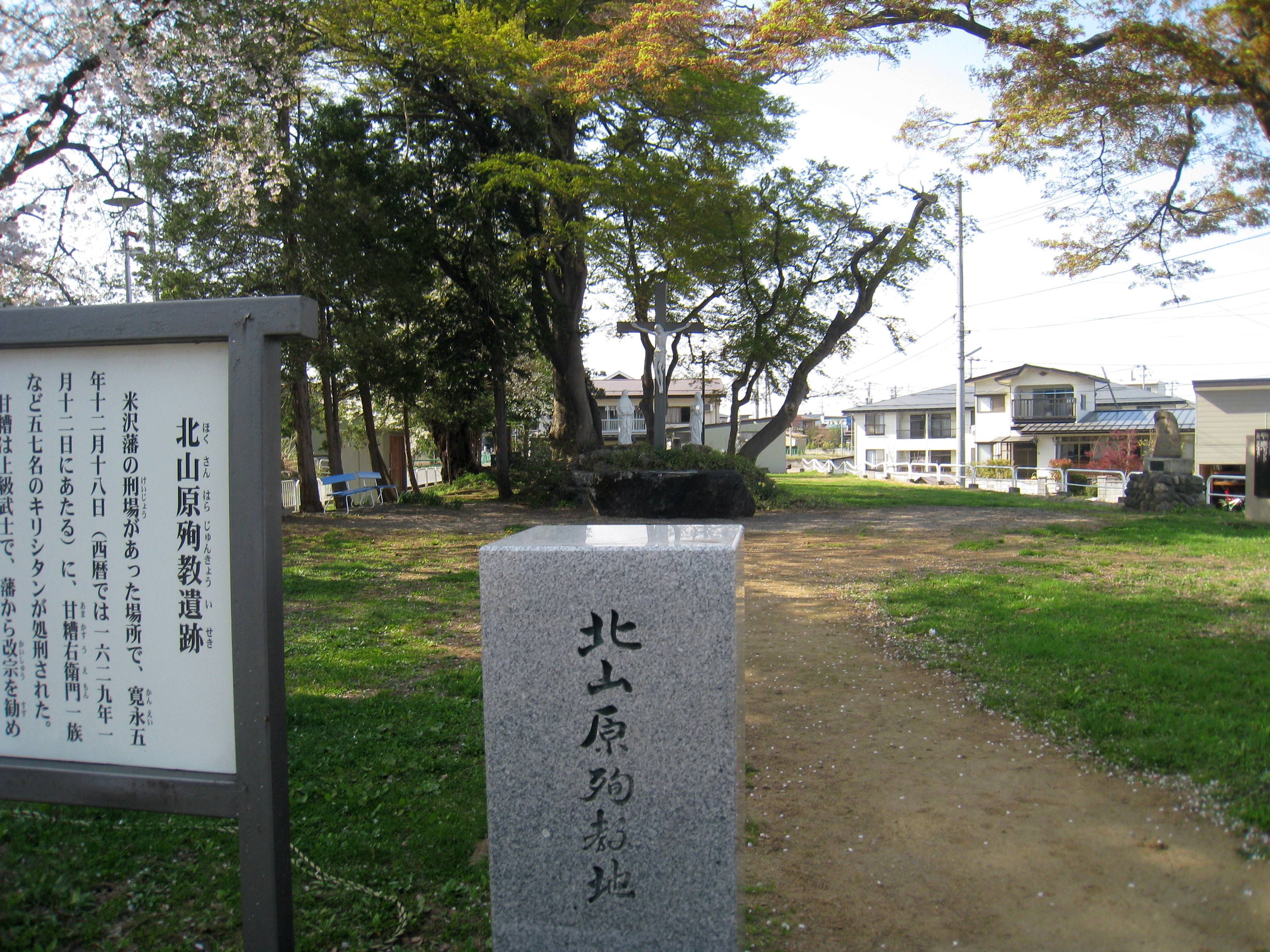 Hokusanbara Martyr Memorial (Hokusanbara junkyo iseki) in Yonezawa City, Yamagata Prefecture, Japan